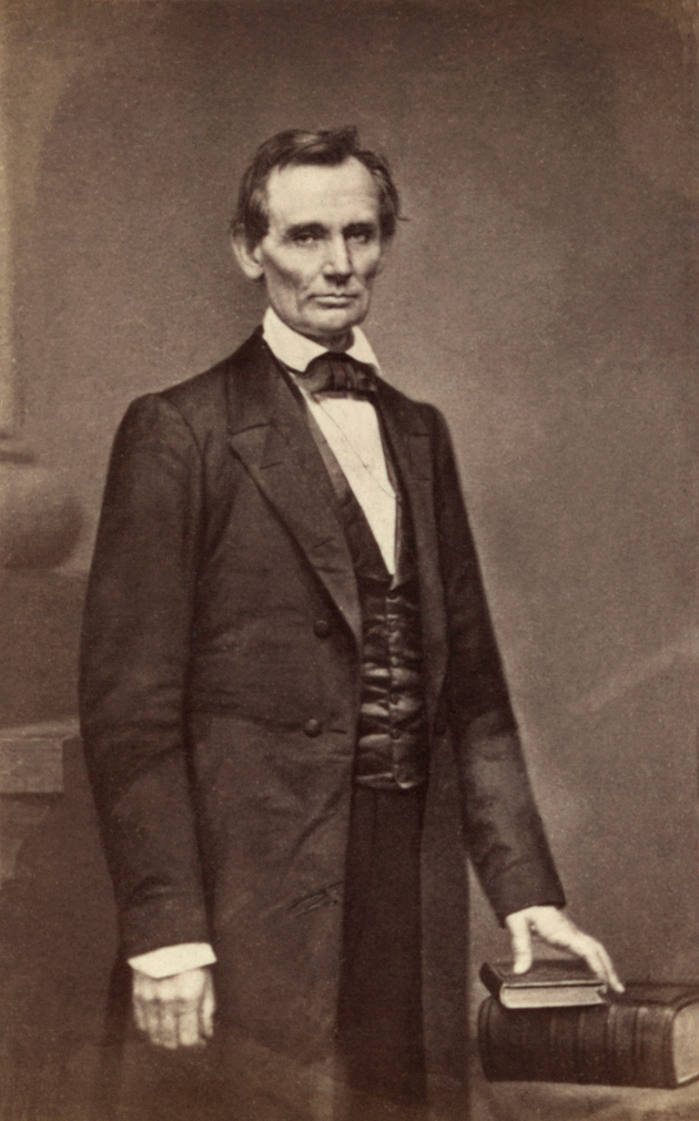 Abraham Lincoln, candidate for U.S. president, three-quarter length portrait from Carte-de-visite, before delivering his Cooper Union address in New York City